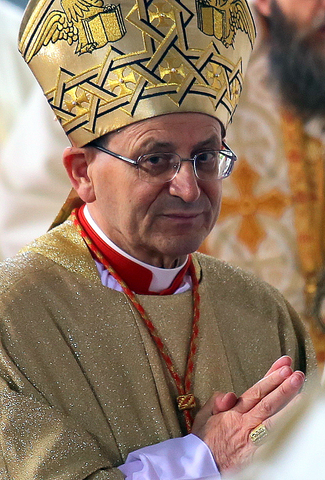 Angelo Amato in Budapest